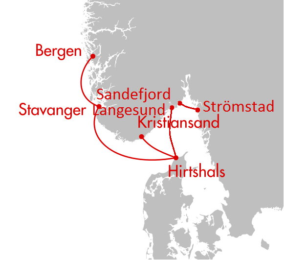 Fjord line route map 2014